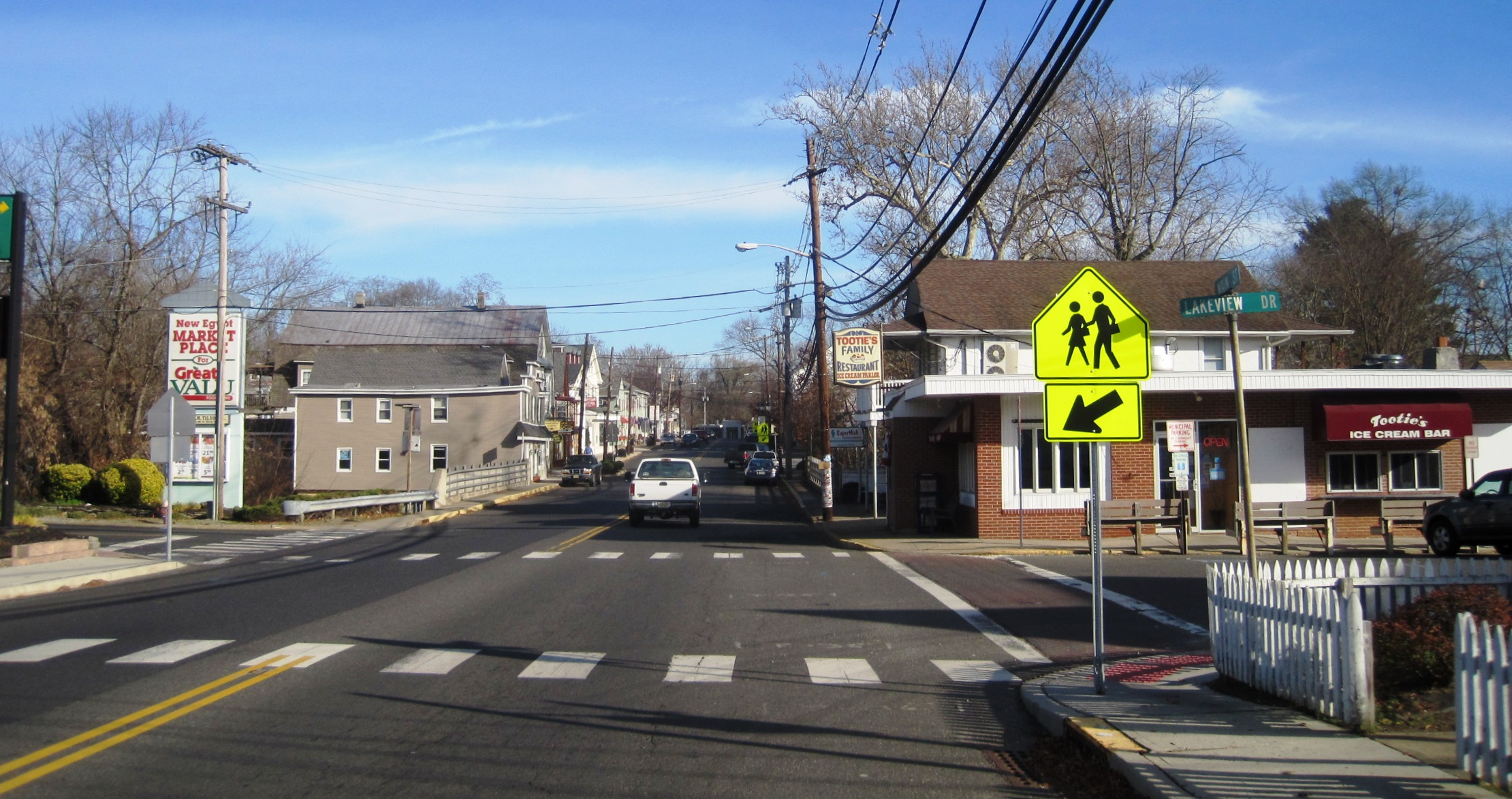 Photo of New Egypt, New Jersey a census designated place within Plumsted Township. Photo taken along eastbound Main Street (County Route 528) at Lakeview Drive.